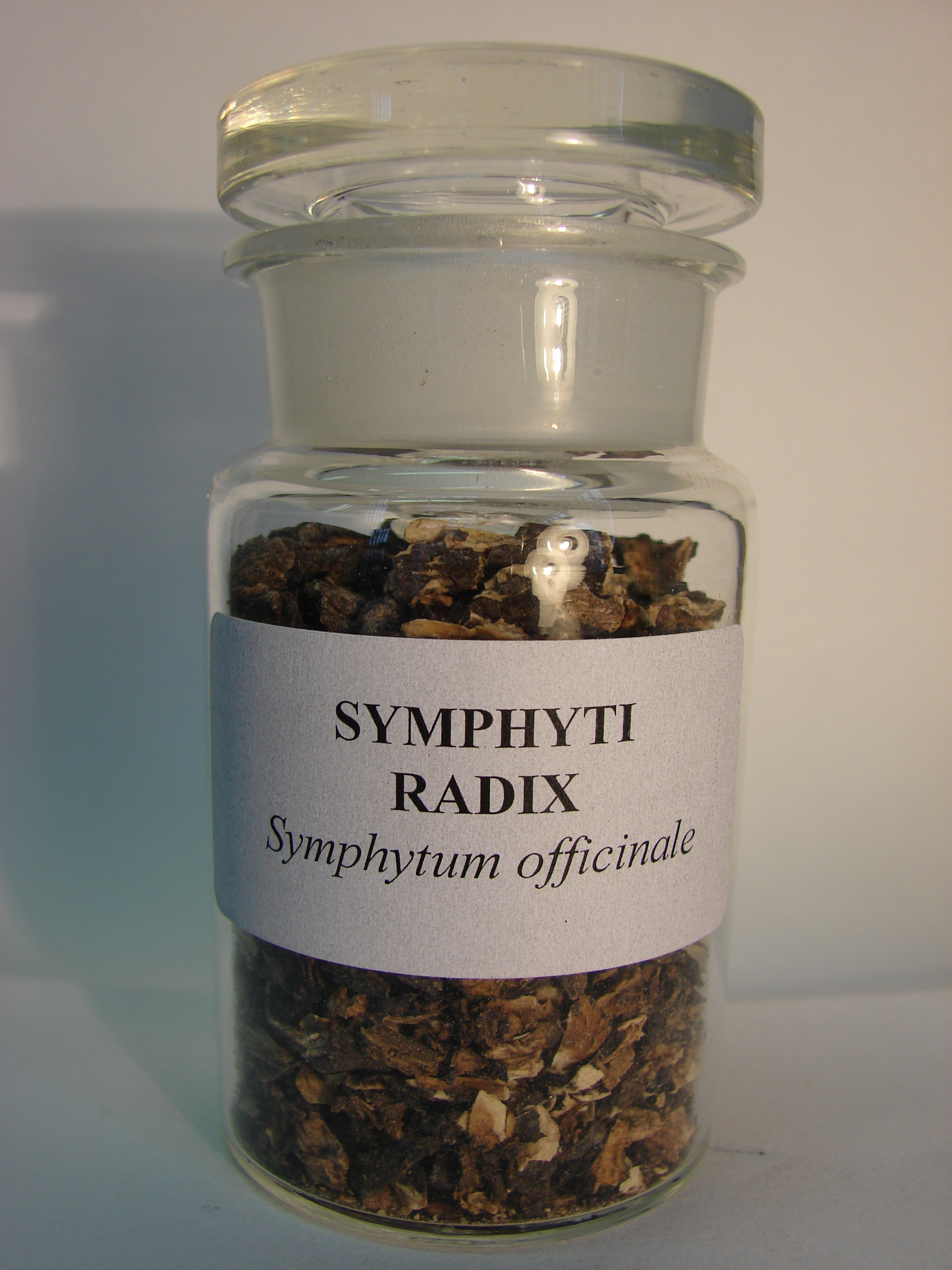 Symphyti radix, Symphytum officinale